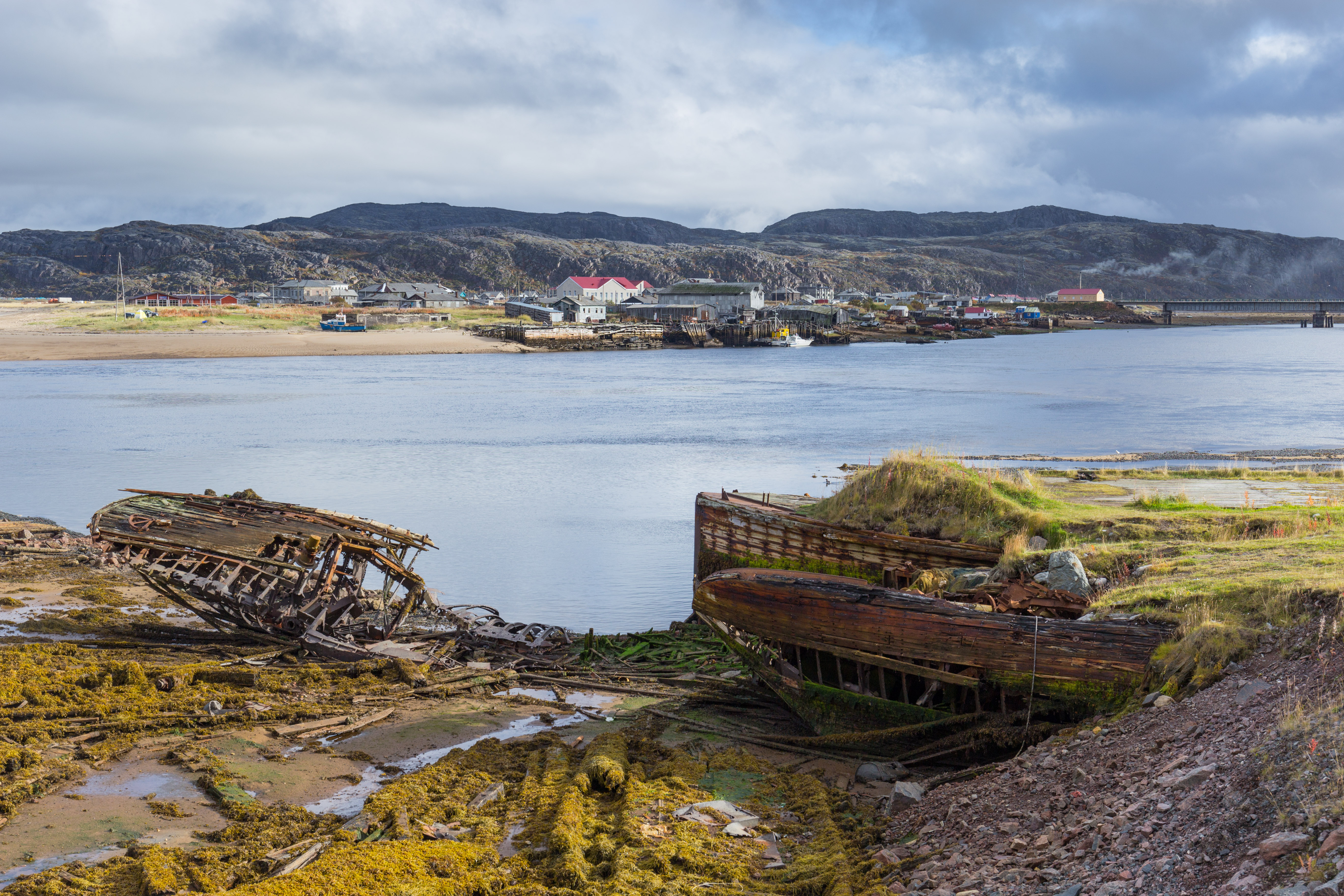 Teriberka village, Kola peninsula